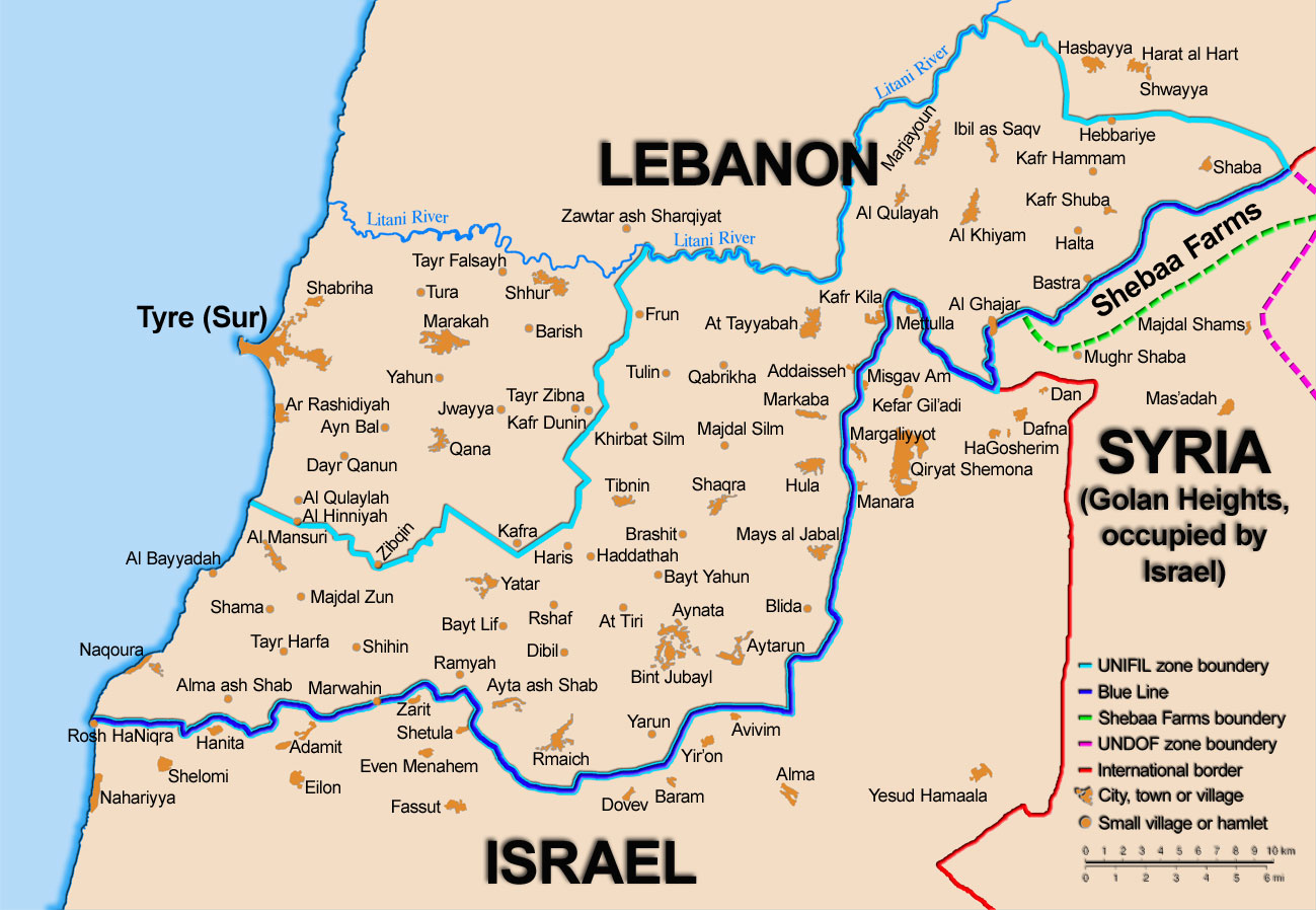 Map showing the Blue Line demarcation line between Lebanon and Israel, established by the UN after the Israeli withdrawal from southern Lebanon after its short 1978 invasion called "Operation Litani". It follows the 1949 cease-fire line, also known as the Green Line, as well as the somewhat contested Lebanese-Syrian border towards the Israeli-occupied Golan Heights. The map is made by Thomas Blomberg, using the UNIFIL map, deployment as of July 2006 as source.